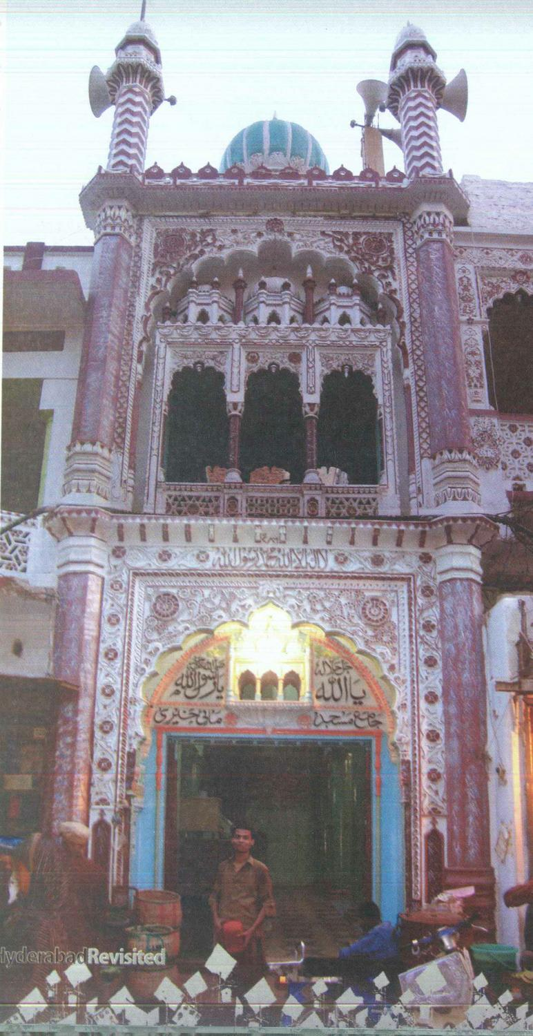 Mai Khairiji Masjid This is a photo of a monument in Pakistan identified as the SD-28